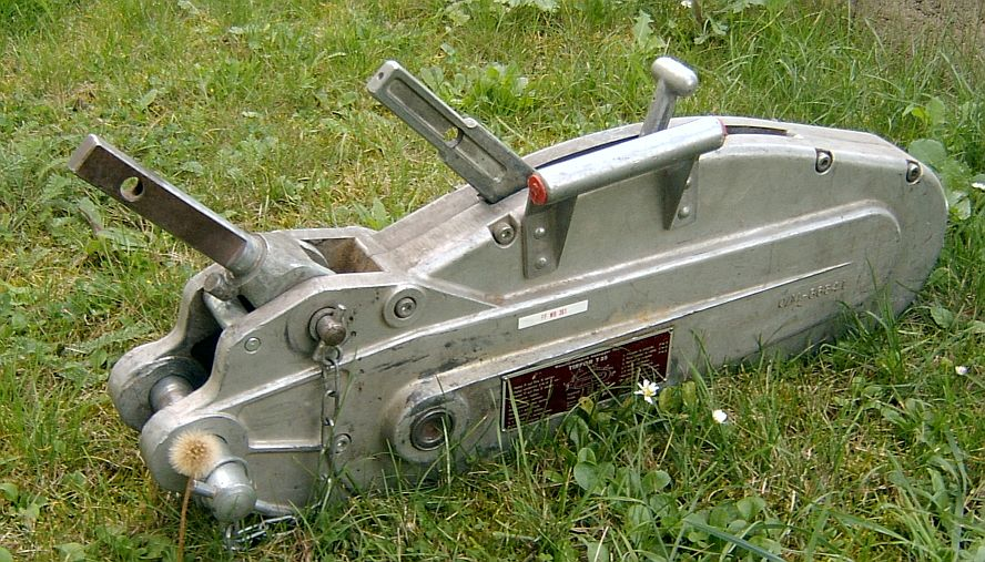 Grip hoist. Tirfor T25. Pulling force 25 kN.